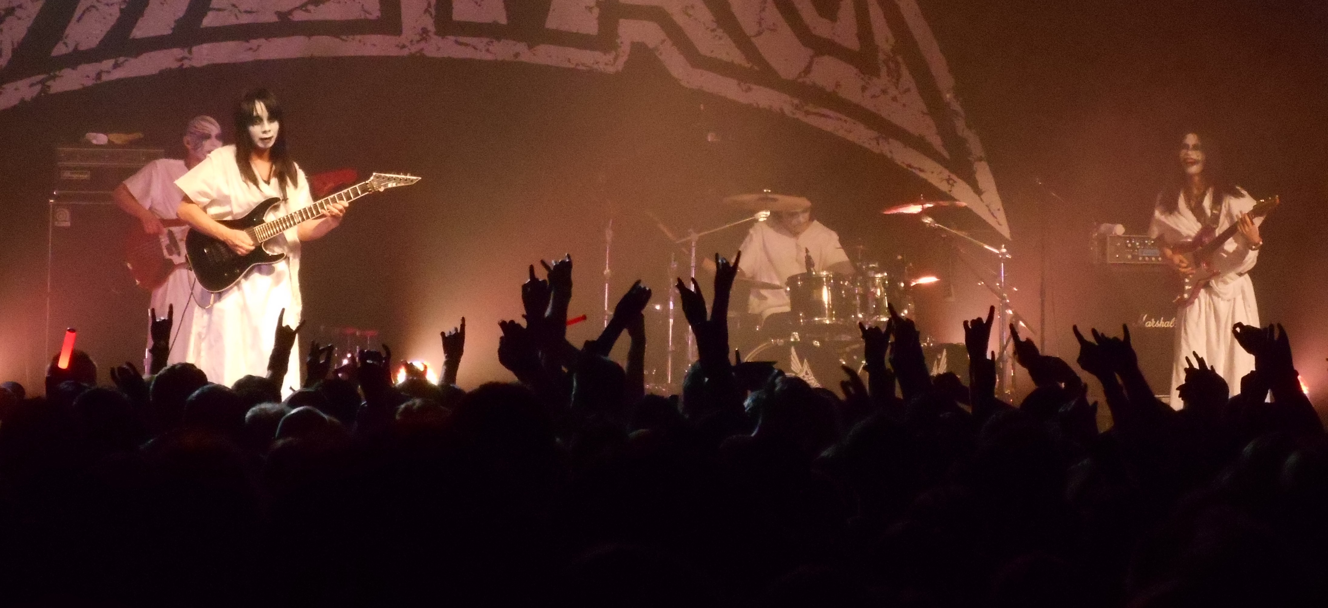 Babymetal's backing band "Kami Band" performance at Danforth Music Hall on May 12, 2015.